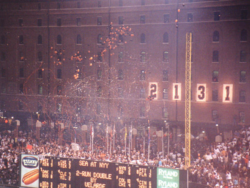 The numbers on the Orioles' warehouse changed from 2130 to 2131 on Sept. 6, 1995 to celebrate Cal Ripken, Jr. passing Lou Gehrig's consecutive games played streak.